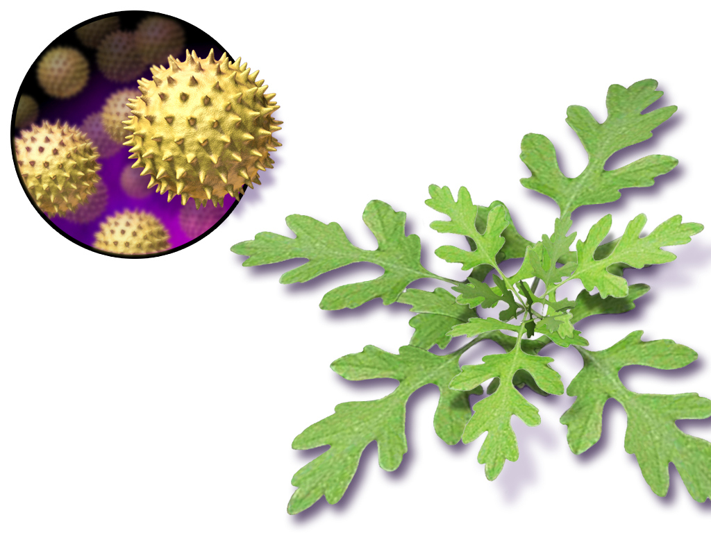 An illustration depicting ragweed.